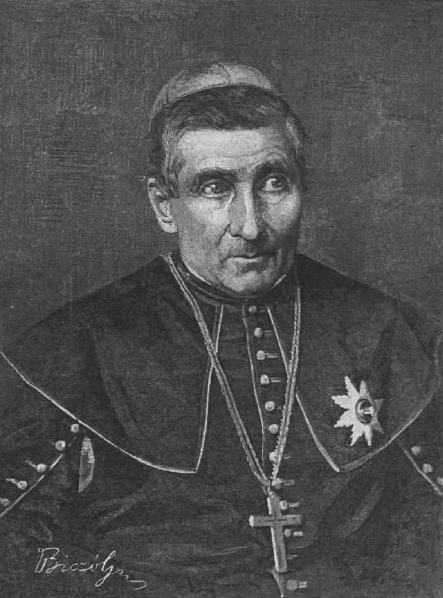 Sándor Bonnaz